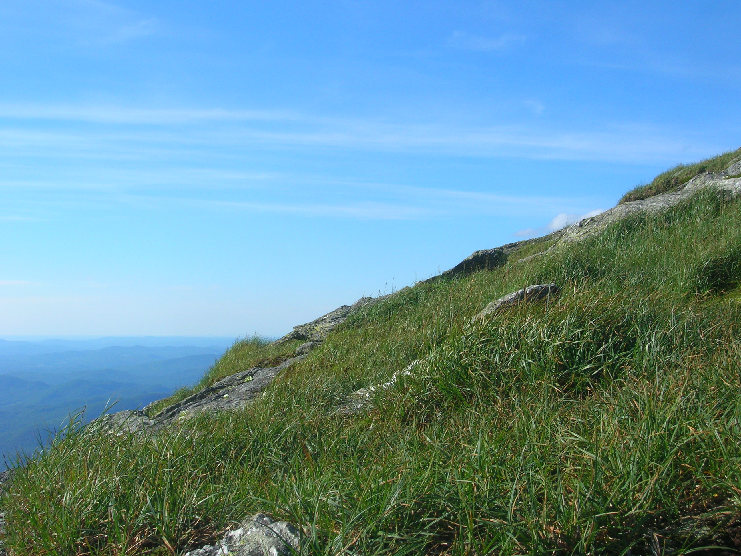 View of the Alpine Tundra grasses at the summit of Camel's Hump Mountain, Vermont (looking northbound): Jun 2008